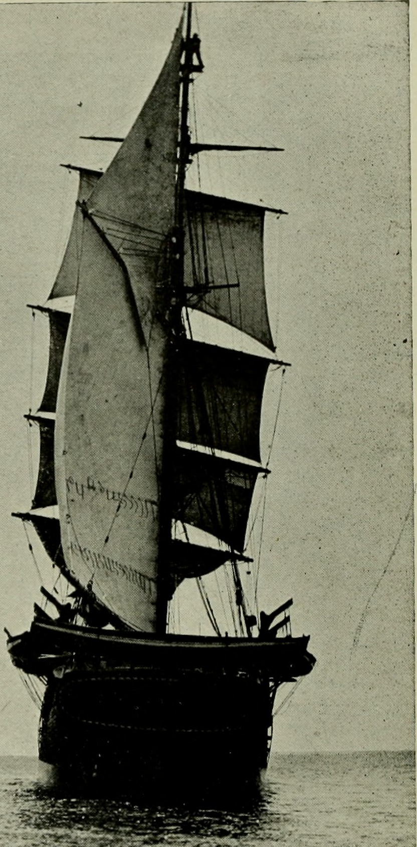 IN WHALING TRIM. The Daisy of New Bedford, the whaling brig which carried the expedition to the Antarctic and had previously been to Kerguelen Land and twice to South Georgia Title: The American Museum journal Year: c1900-(1918) (c190s) Authors: American Museum of Natural History Subjects: Natural history Publisher: New York : American Museum of Natural History Text Appearing Before Image: ' Text Appearing After Image: XI -d 5 £flo